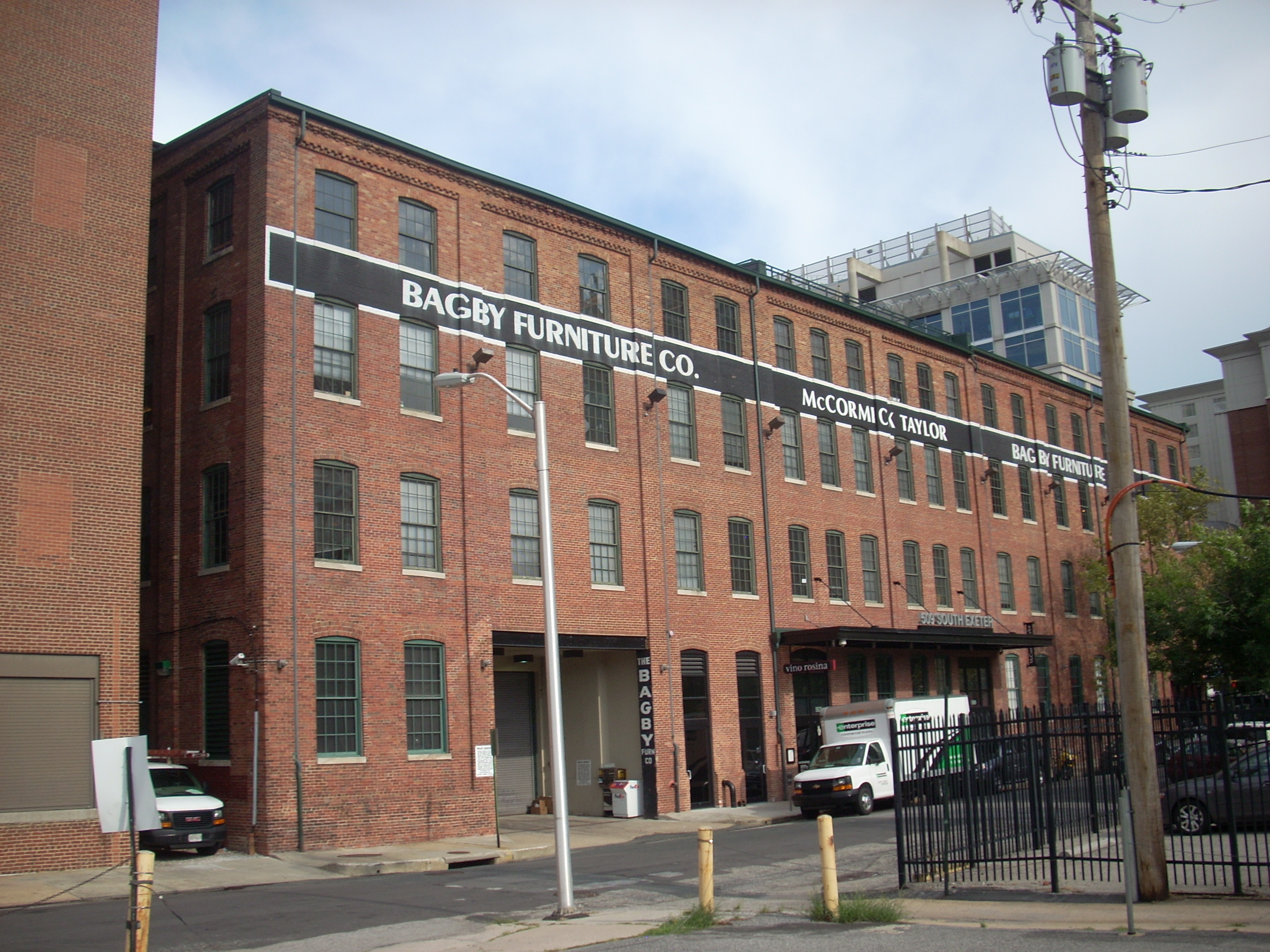 Bagby Furniture Company Building, 509 S. Exeter St., Baltimore City, Maryland. Built 1902-1907.